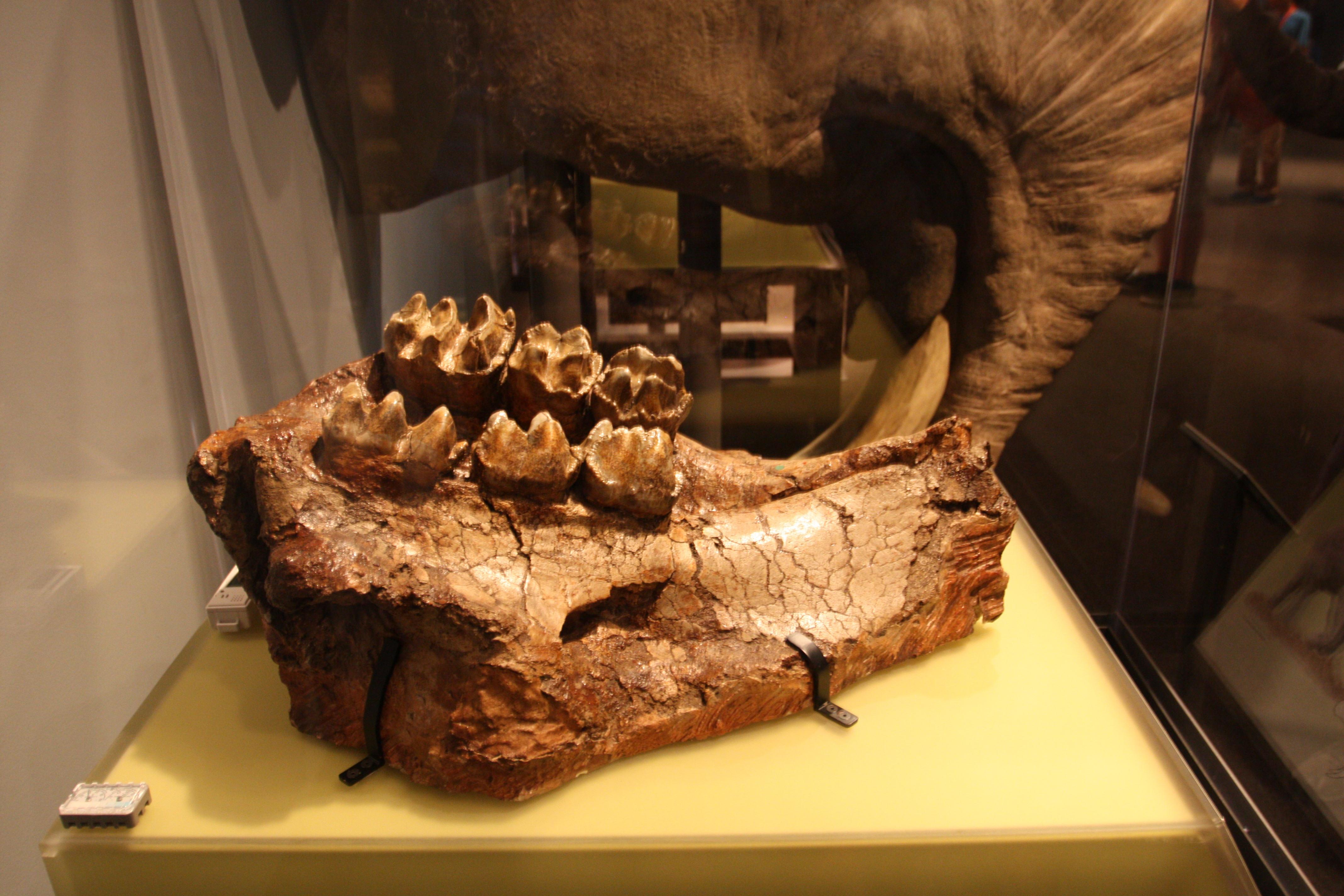 Maxilla of Deinotherium proavum in the Mammoths: Giants of the Ice Age exhibit at the Royal BC Museum, Victoria.